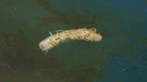 pryosome dead oil spill